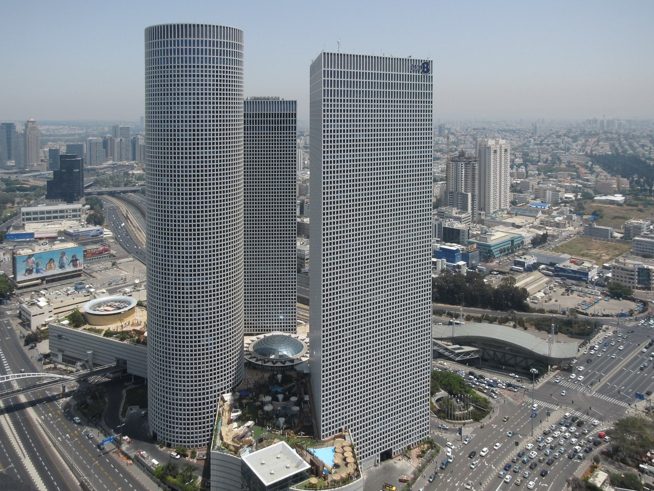 Azriely Center, view from "Migdal-Ha-Yovel", Tel-Aviv, Israel.